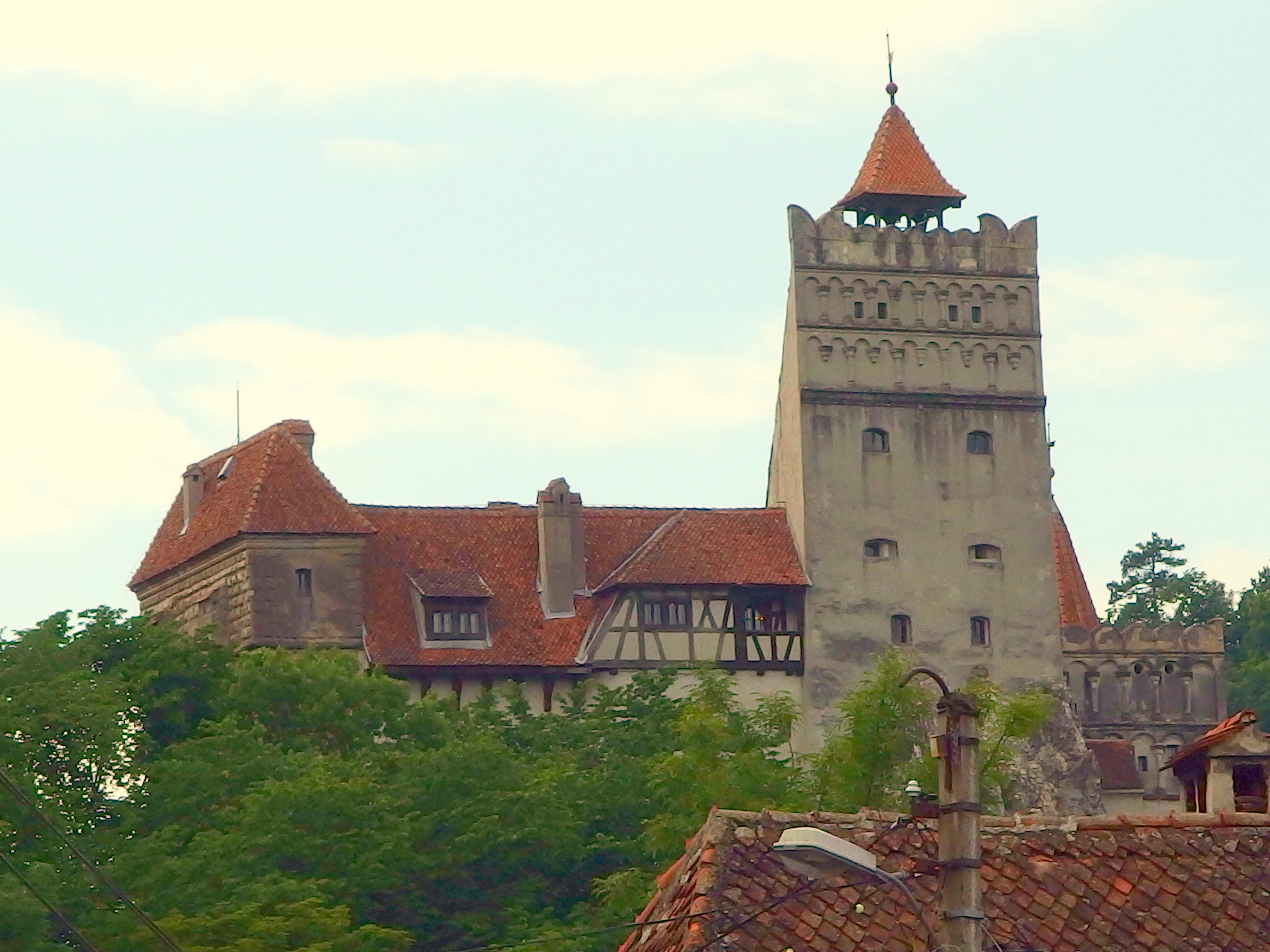 2014-06-28 at Bran castle.